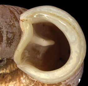 Photo of an oblique apertural view of a shell of Halongella schlumbergeri (Morlet, 1886). Locality: MAA3 Quảng Ninh Province, Hạ Long Bay Area, unnamed island in Cống Đỏ area, 20°52.47'N, 107°11.72'E, coll. Maassen, W.J.M., 03.10.2003., PGB/1, WM/3).